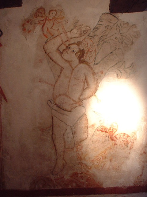 Painting of the cloister Oxtoticpac, State of Mexico